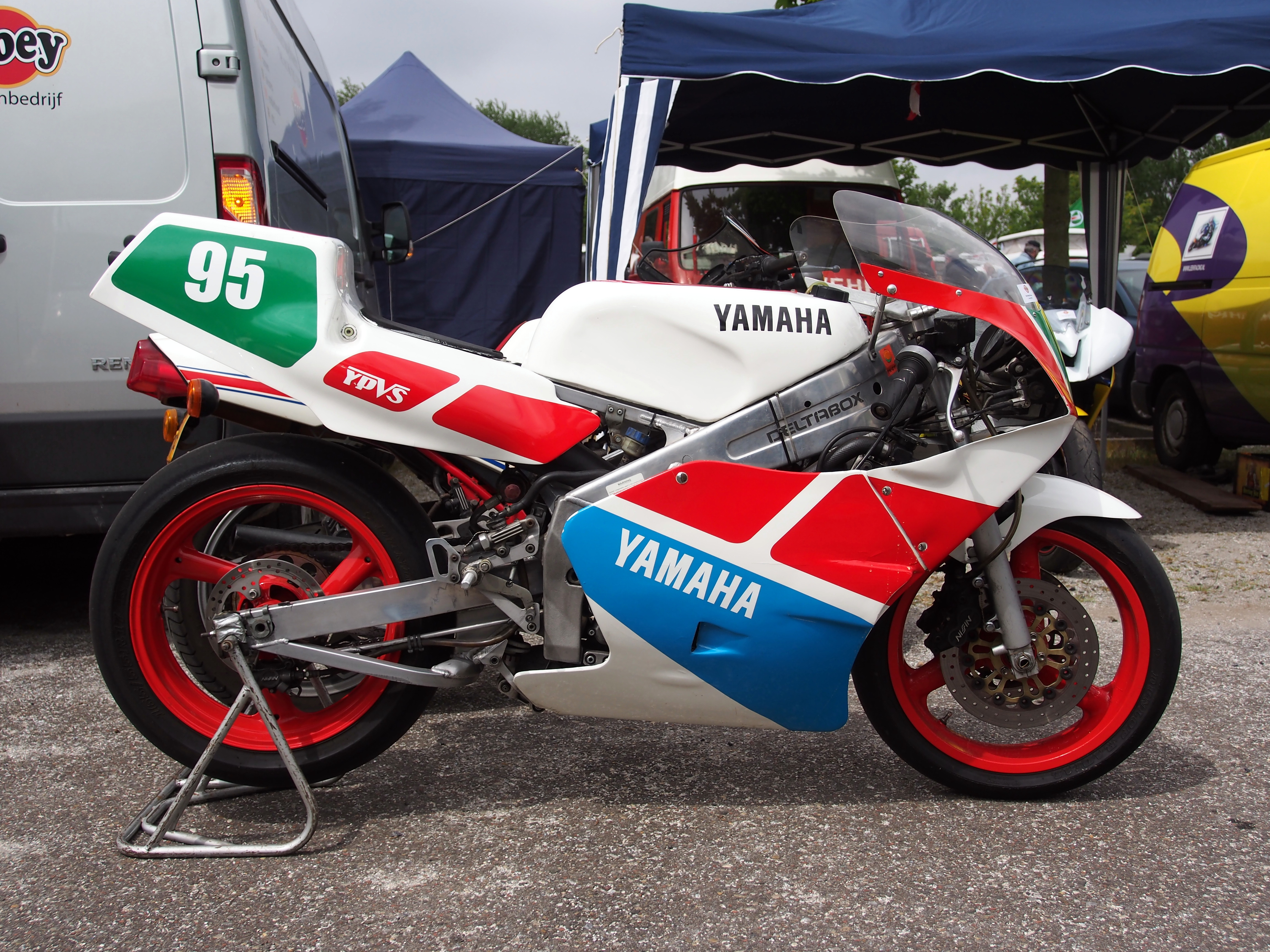 Photographed at Rockanje, The Netherlands.